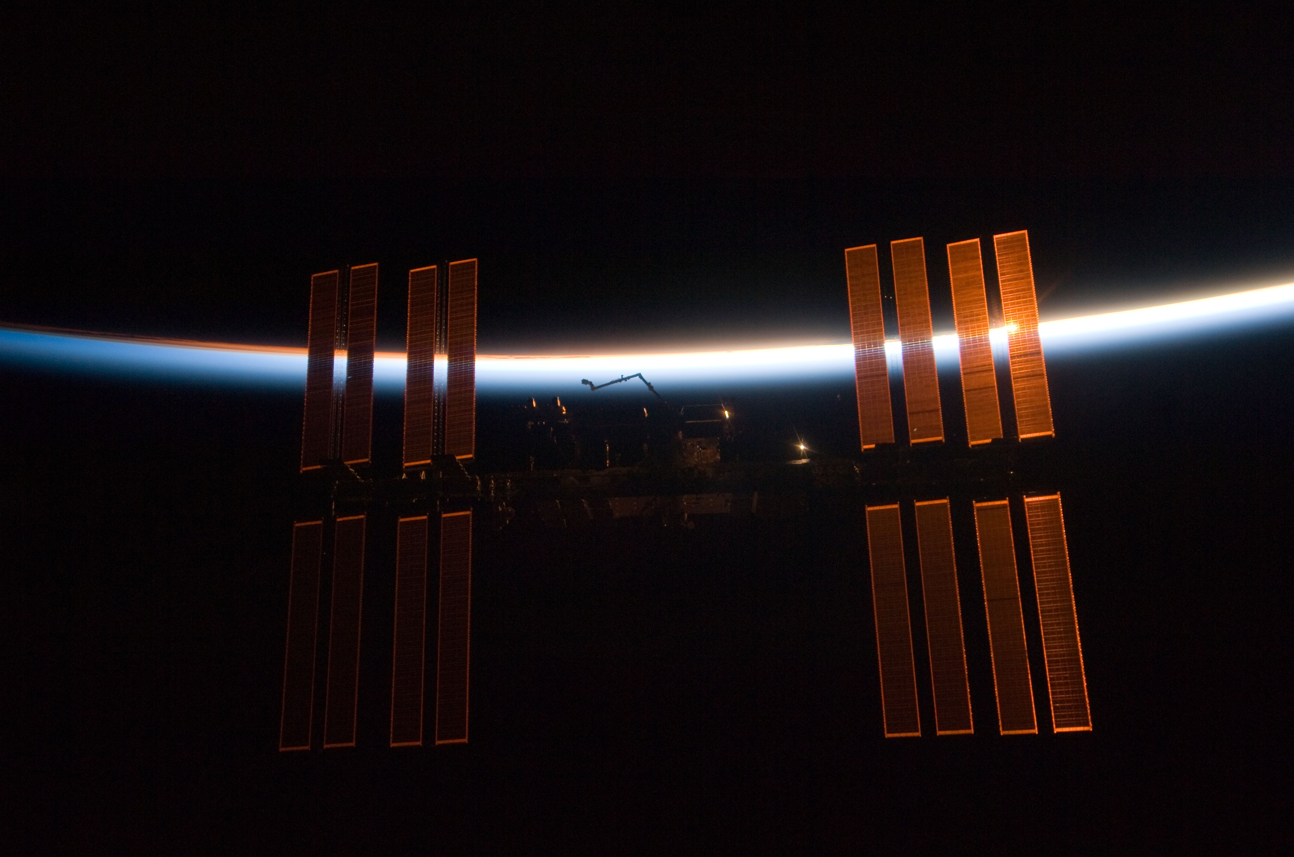 Backdropped by the blackness of space and the thin line of Earth's atmosphere, the International Space Station is seen from Space Shuttle Endeavour as the two spacecraft begin their relative separation. Earlier the STS-127 and Expedition 20 crews concluded 11 days of cooperative work onboard the shuttle and station. Undocking of the two spacecraft occurred at 12:26 p.m. (CDT) on July 28, 2009.